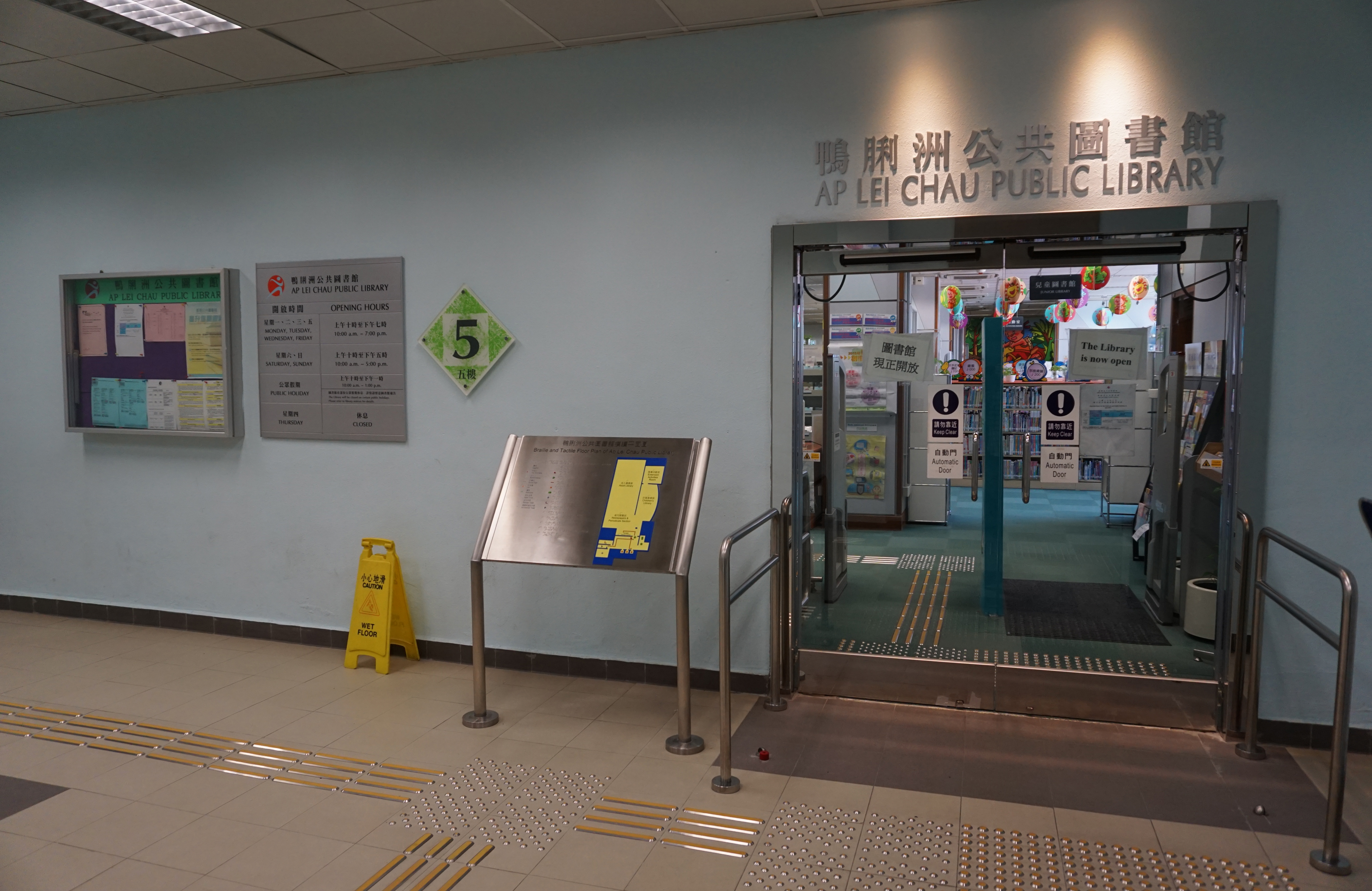 Ap Lei Chau Public Library in Ap Lei Chau, Hong Kong.